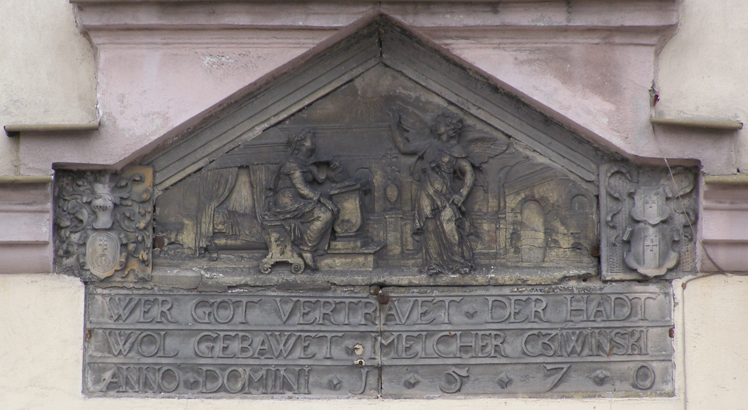 Chełmno - Cywiński house